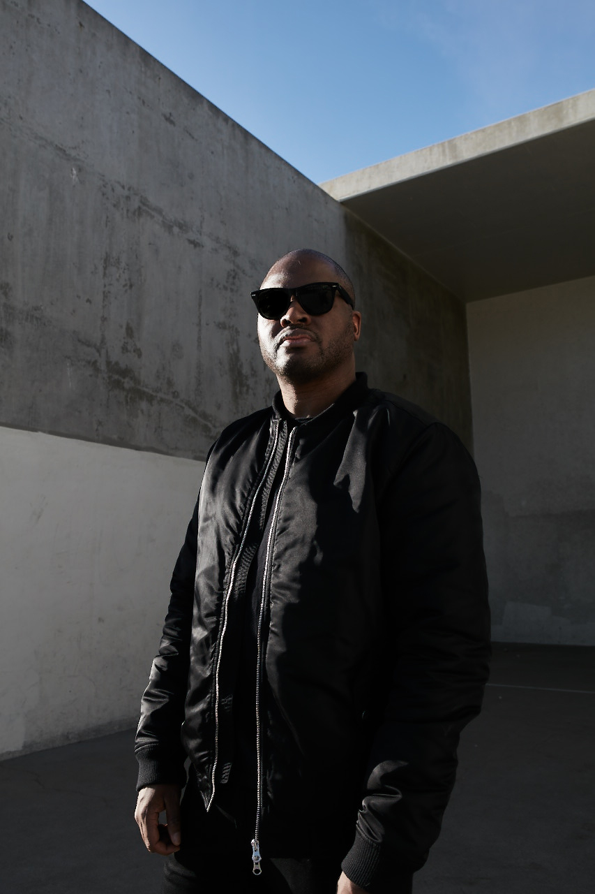 A photo of Singer Taio Cruz Shot by me.